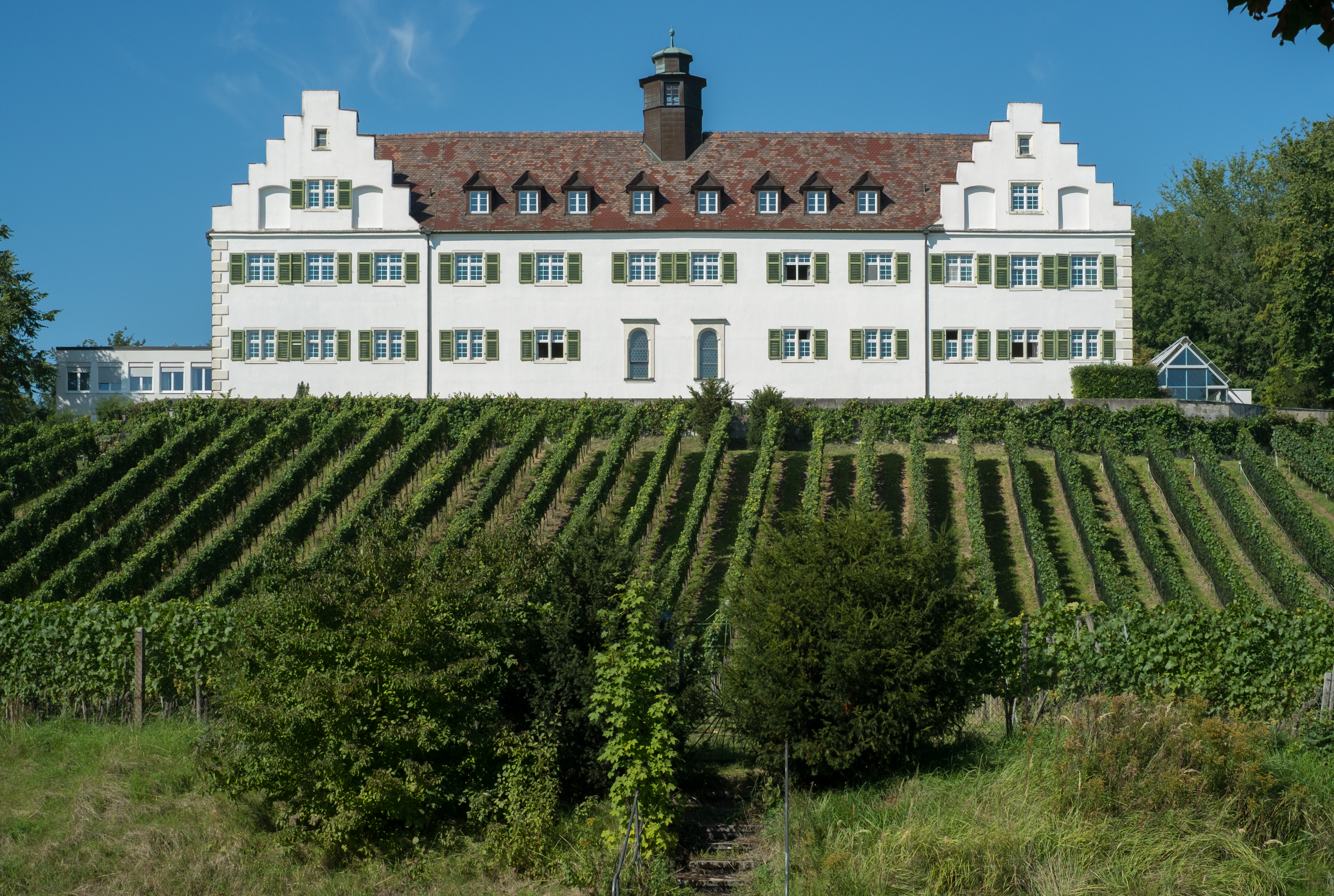 Manor House Hersberg, Immenstaad, district Bodenseekreis, Baden-Württemberg, Germany